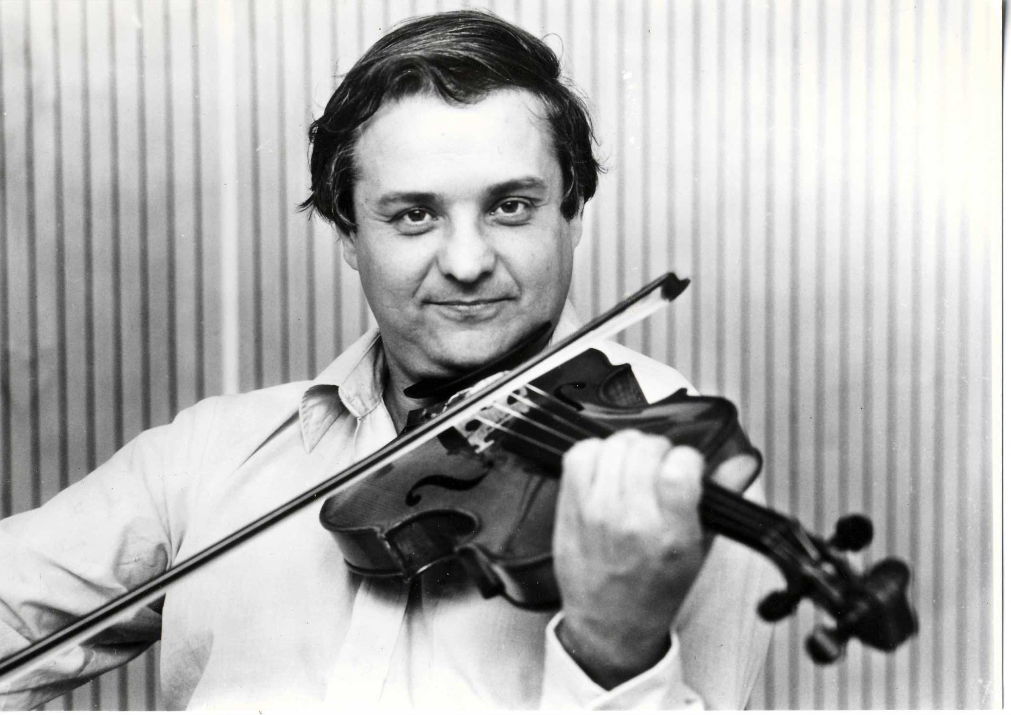 Scanned photograph of Michael L. Geller